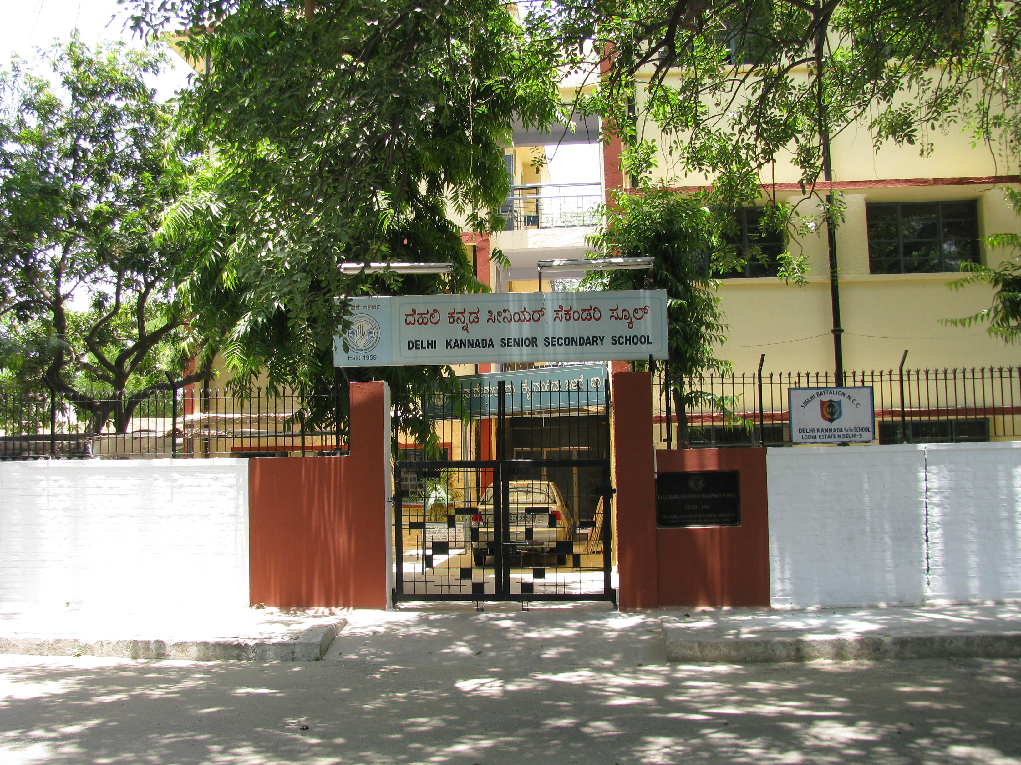 DELHI KANNADA SCHOOL